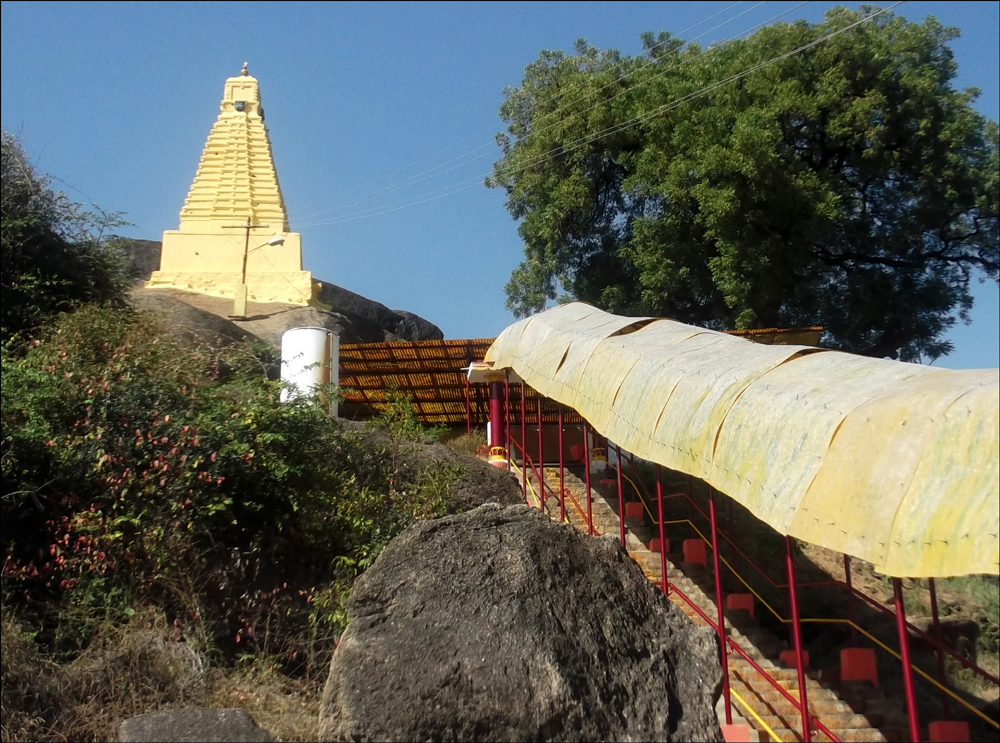 Padmakshi Temple, Hanmakonda, Warangal Urban district